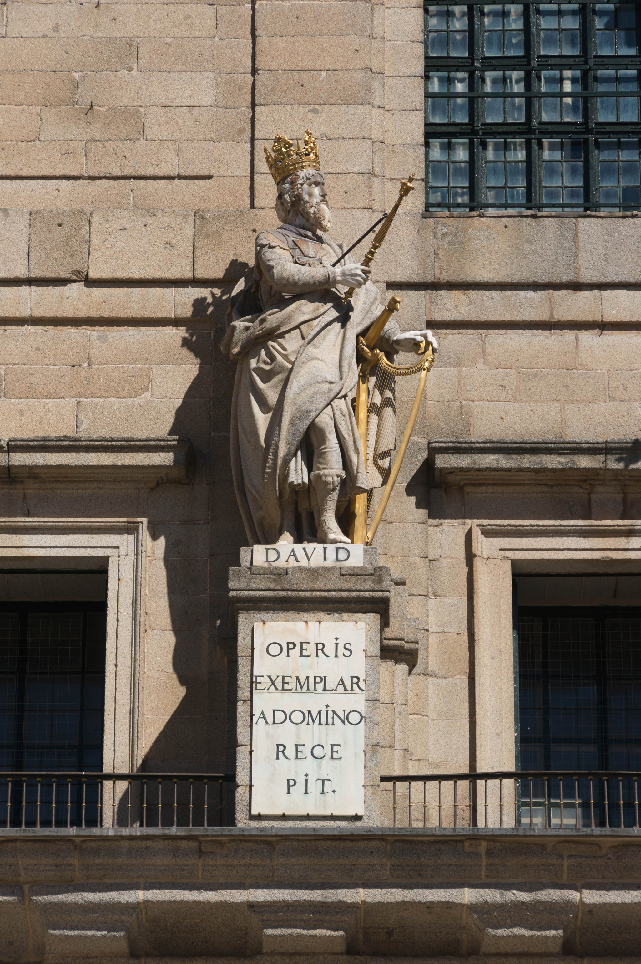 Statue of king David, by Juan Bautista Monegro, on the facade of the church of the monastery of San Lorenzo del Escorial, Spain.